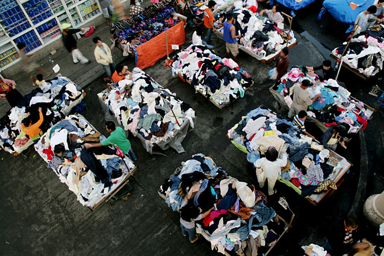 ukay ukay galore